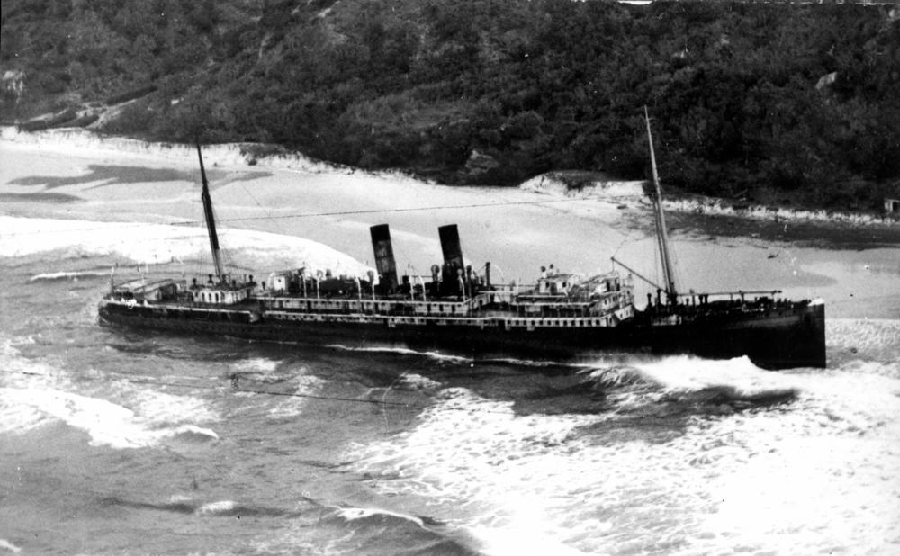 Maheno (ship)